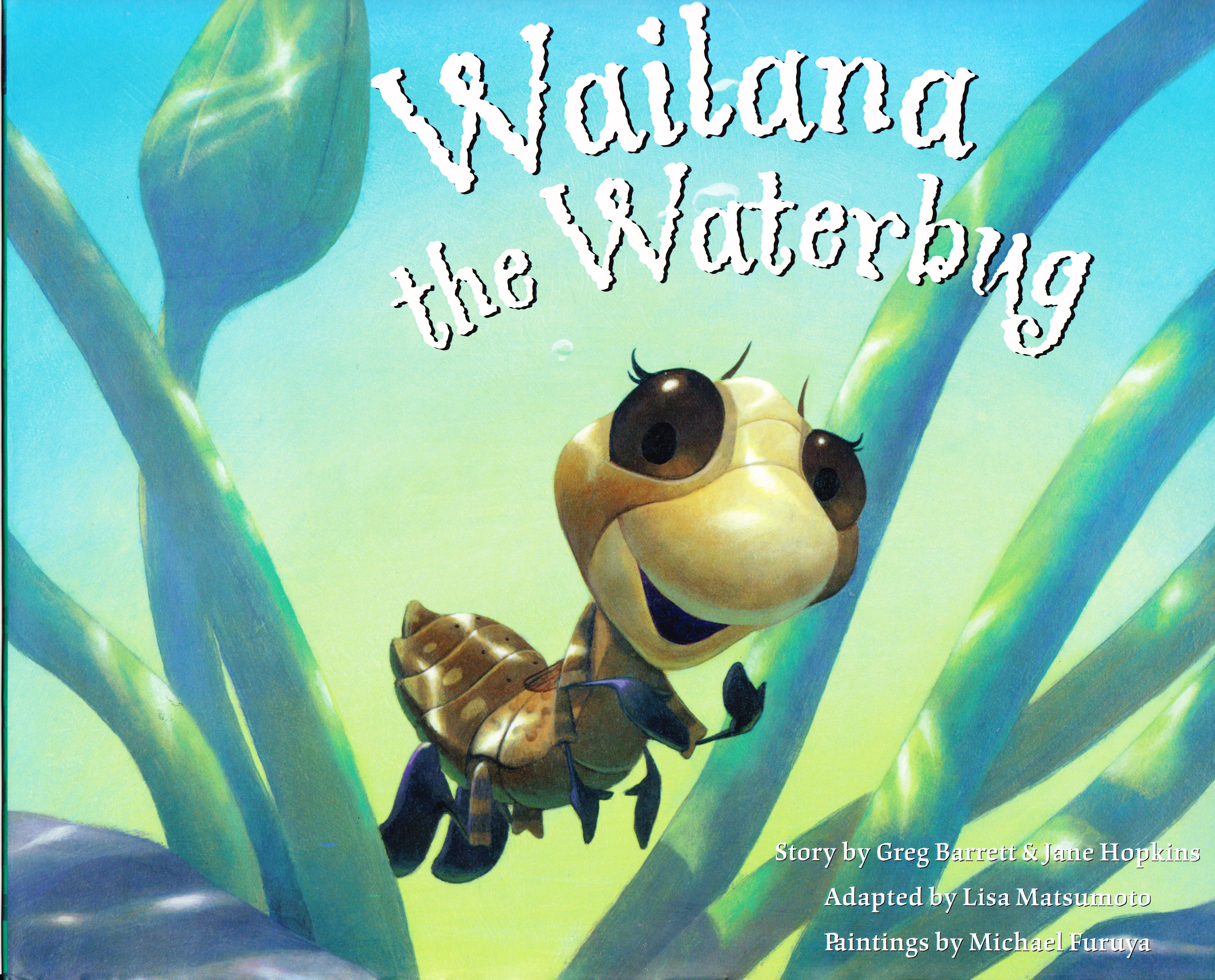 Book jacket for children's book titled Wailana the Waterbug.